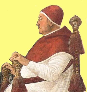 Sixtus IV Pope, from a painting by Melozzo da Forlì